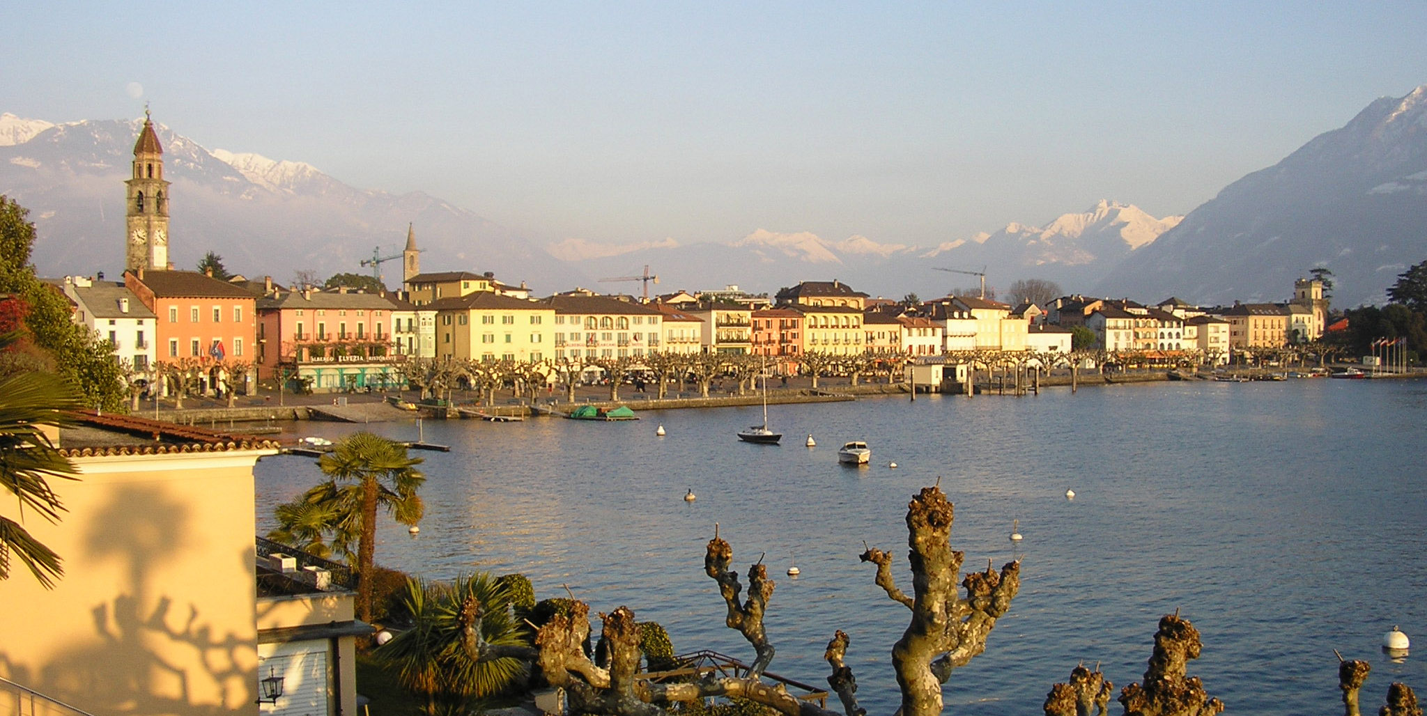 Ascona, in winter